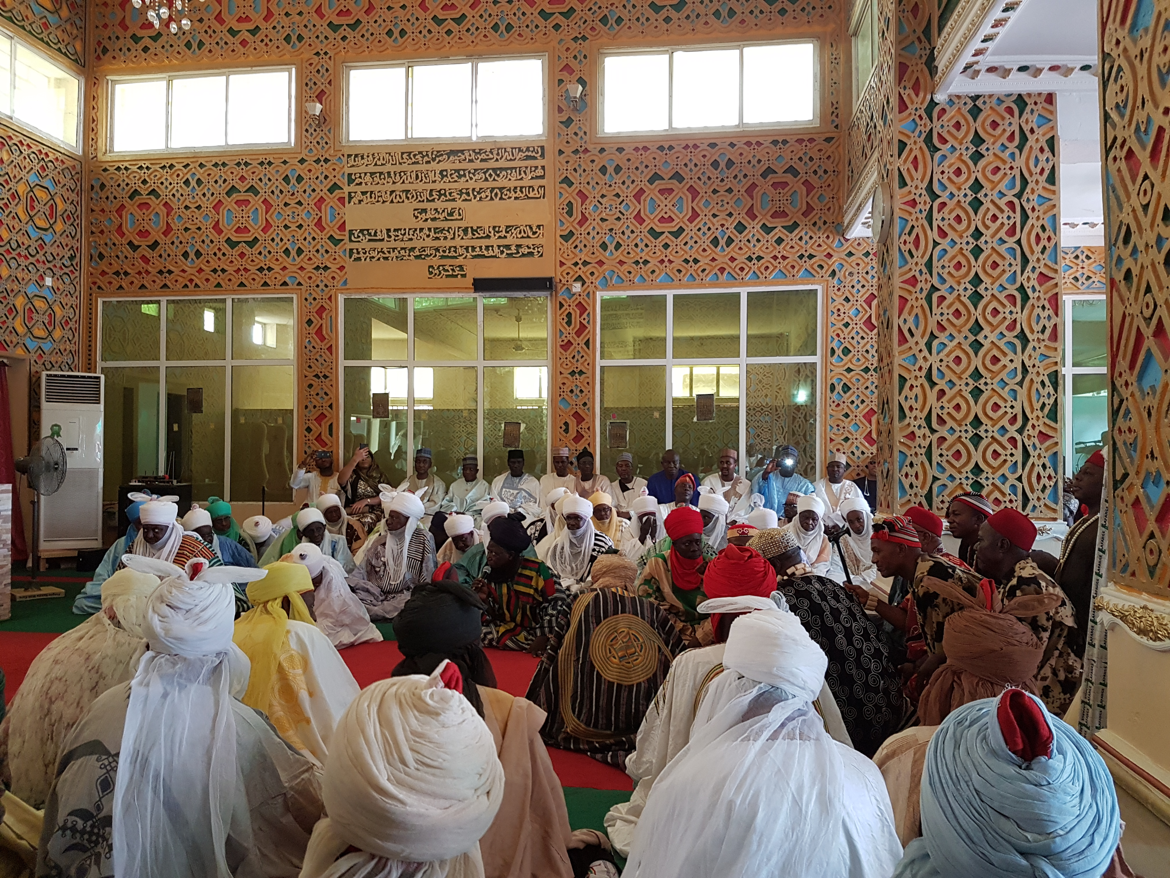 People paying their respects to the Emir of Kano before the September 2016 Durbar.